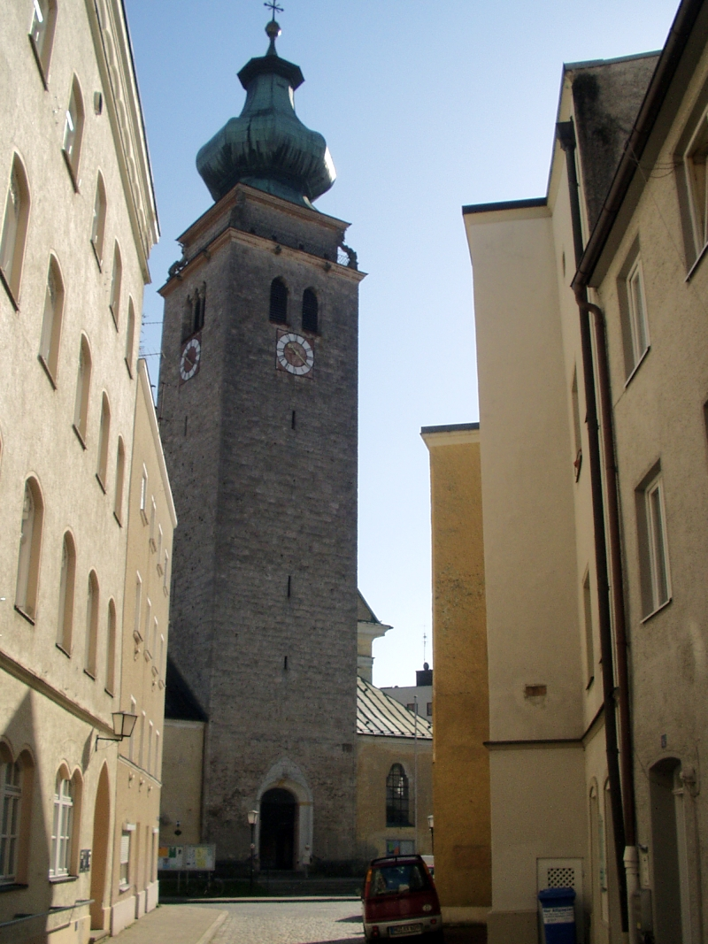 Mühldorf, bell tower of St Nicholas Parish Church from west.